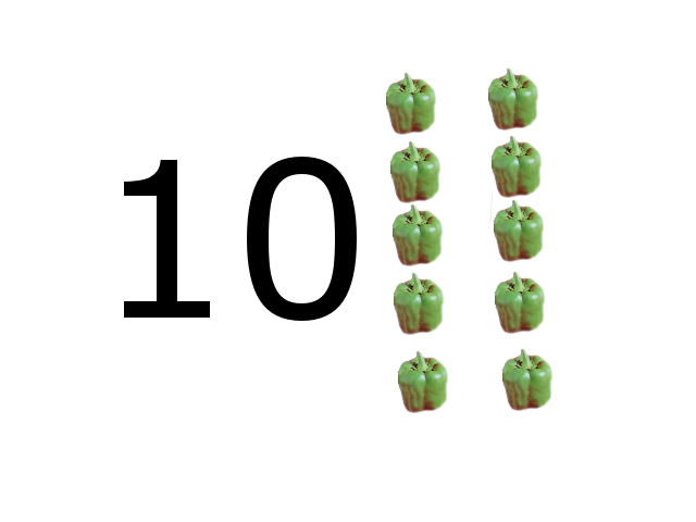 Image licensed under GFDL and made by Javier Carro with GIMP and modified with paint.